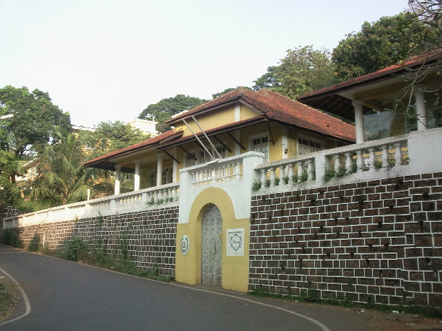 Consulate General of Portugal in Panjim, Goa, India